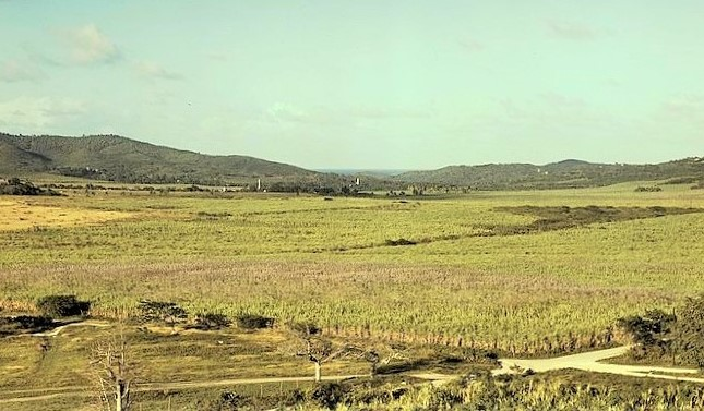 Title: Sugar cane land, Yabucoa Valley? Puerto Rico